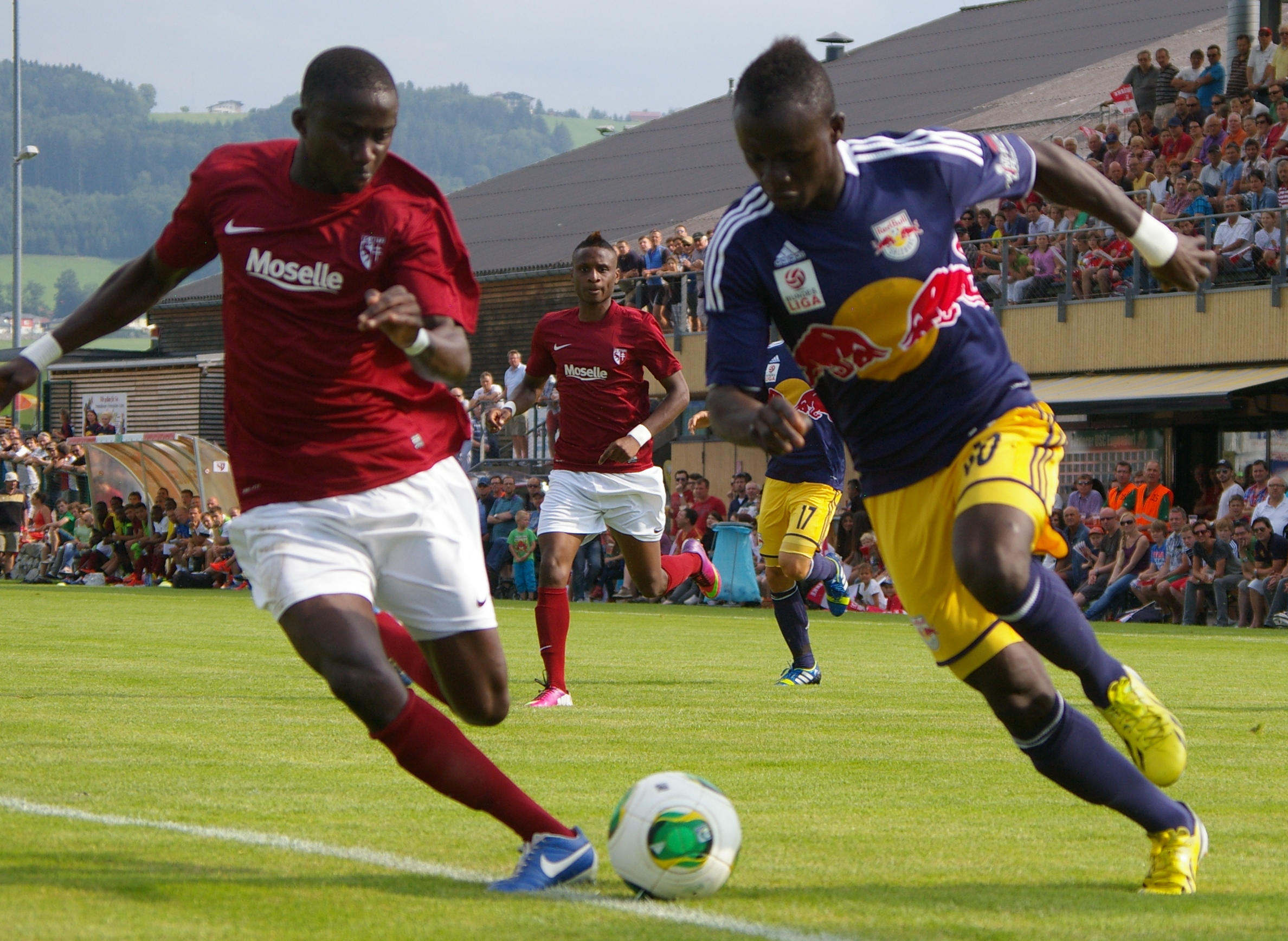 friendly match